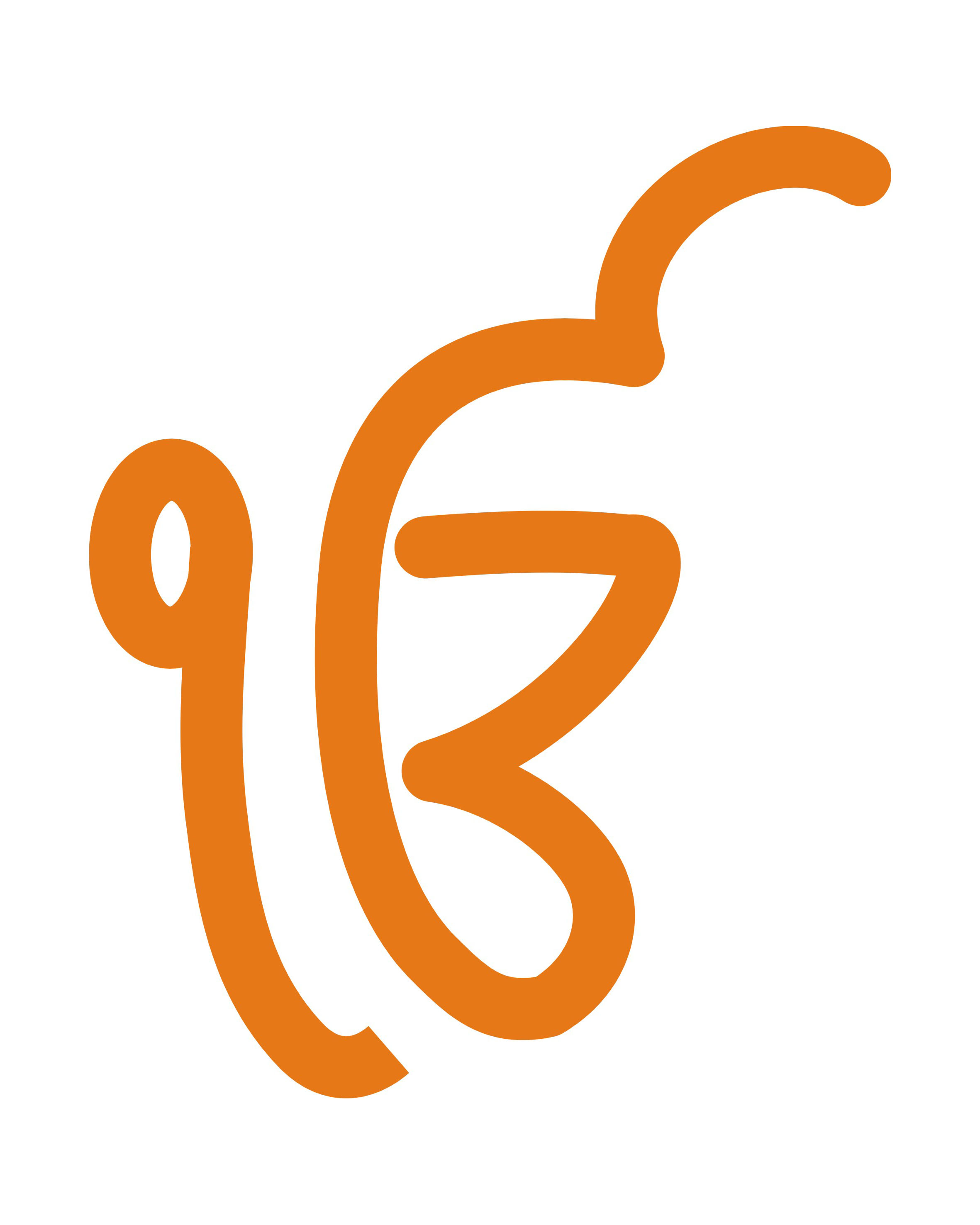 Sikhism Related Graphic of Ek-Onkar - one of important "logos" of this faith. (Simple Orange)